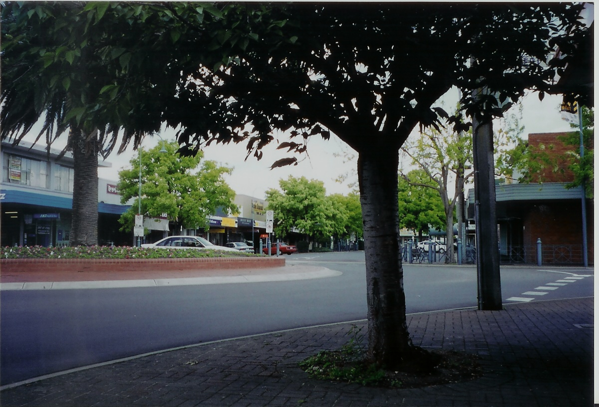 The absolute centre of Moe. This is where Albert Street meets Moore Street.